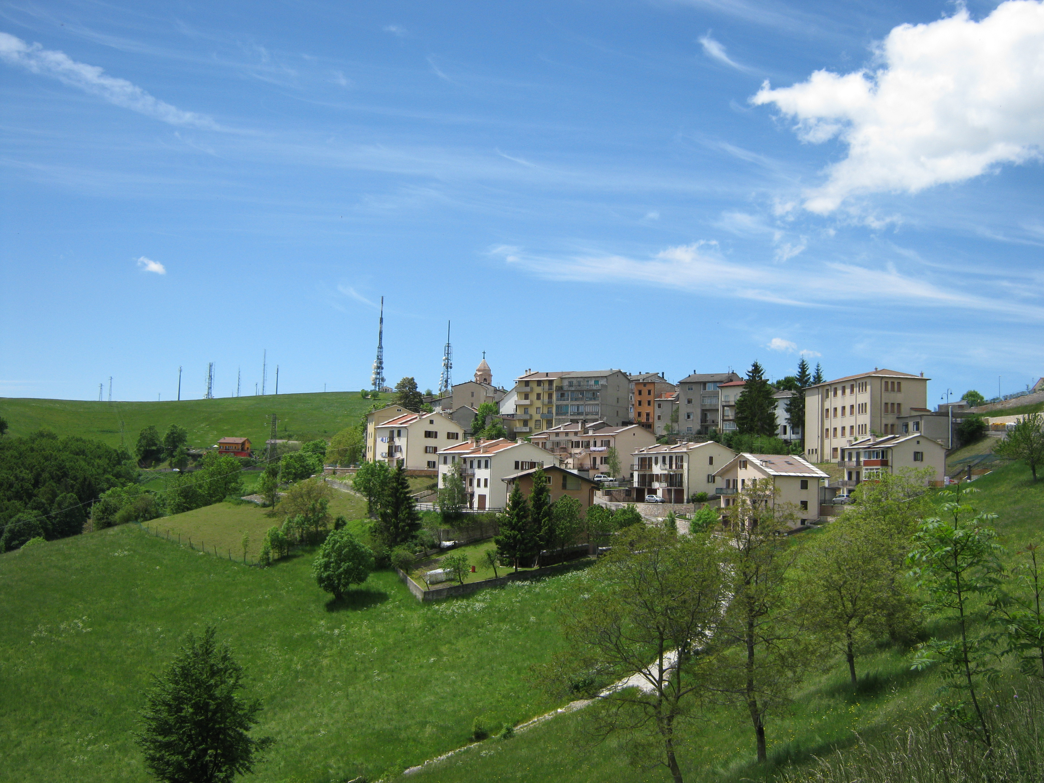 Velo Veronese, Verona, Italy with Radio and TV relay